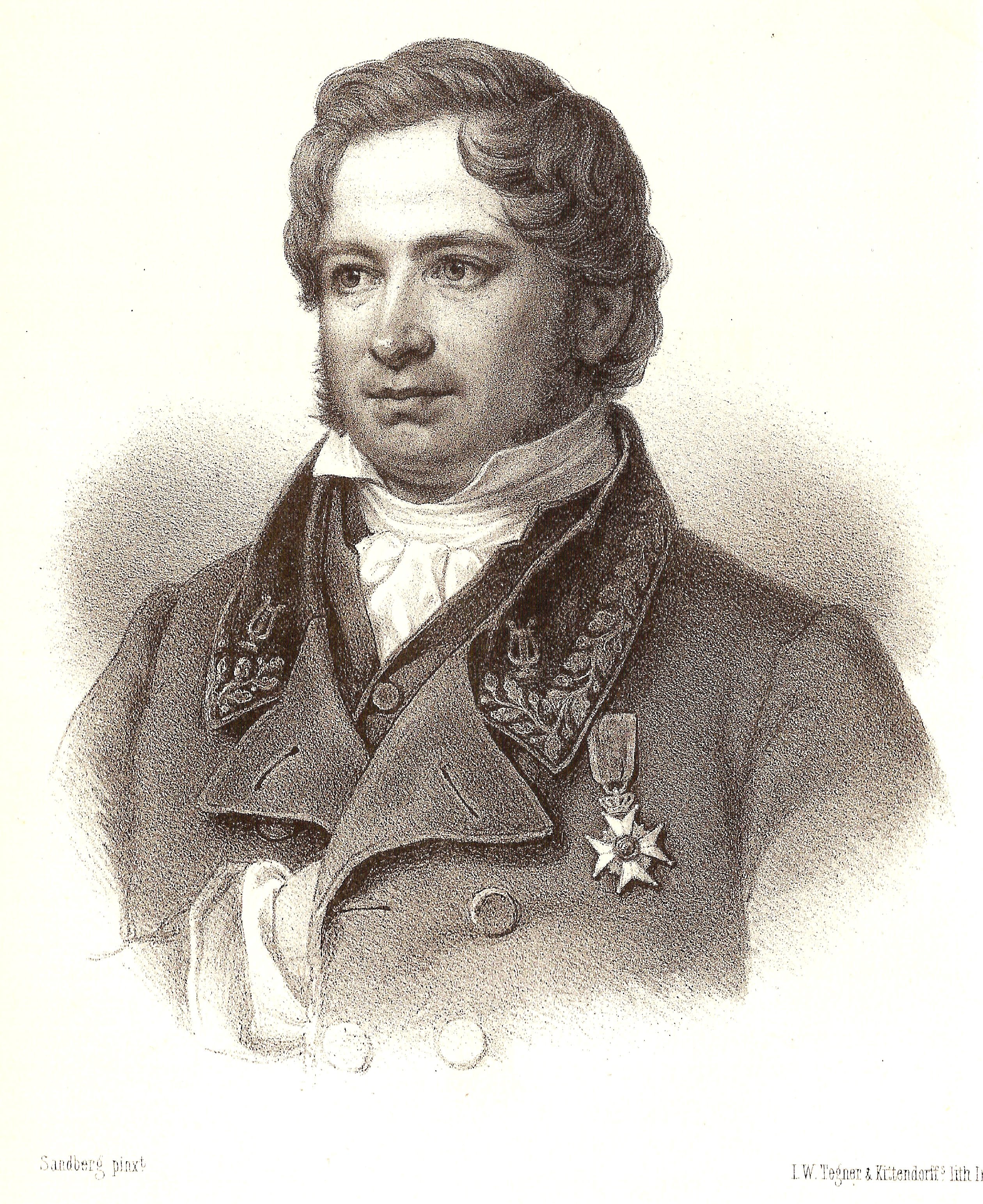 Picture of Erik Gustaf Geijer (1783-1847) with signature, swedish writer, poet, member of the Swedish Academy and professor of history from 1817 at Uppsala University. Picture taken from Samlade skrifter, 1875.